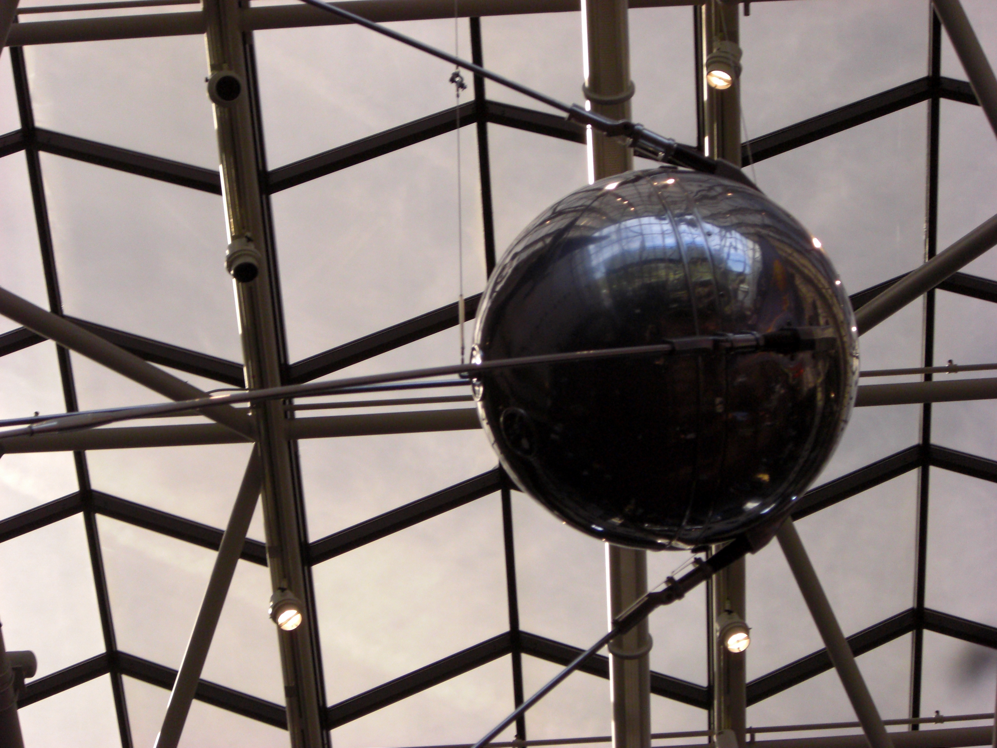 Sputnik, National Air and Space Museum, Washington, D.C., USA